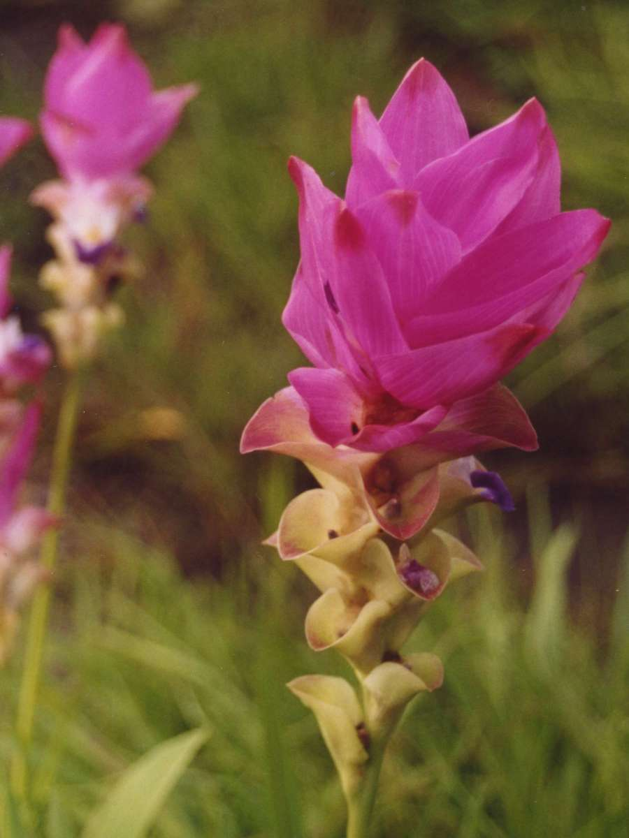 Curcuma alismatifolia (Gagnep.) - Siam Tulip. Photo taken in Pa Hin Ngam national park, Chaiyaphum province, Thailand. Photo taken by User:Ahoerstemeier on July 14 2003.